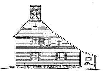 An illustration of a saltbox house (the Comfort Starr house). Cropped from the HABS image.